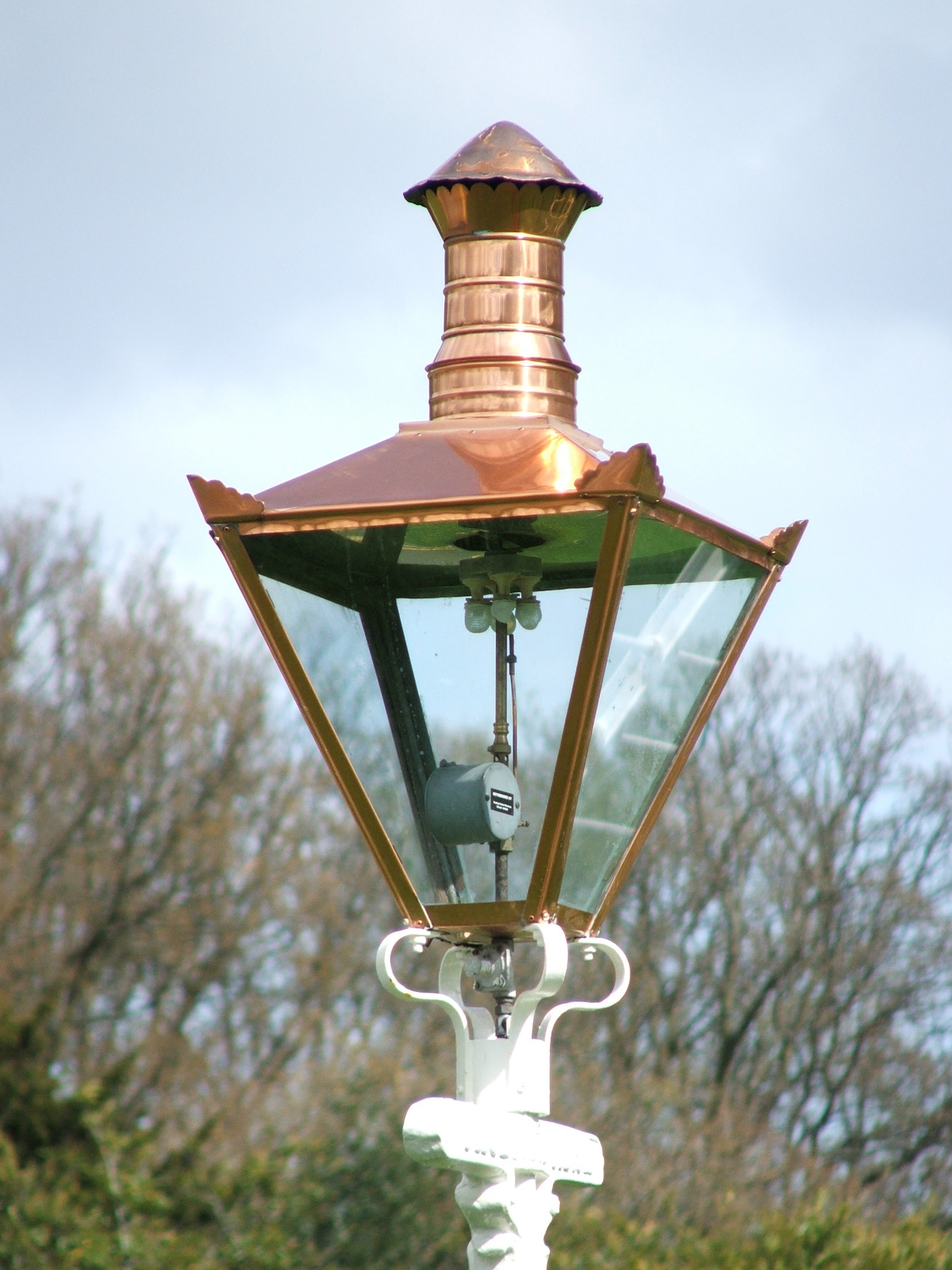 Gas lantern in the Phoenix Park, Dublin, Ireland